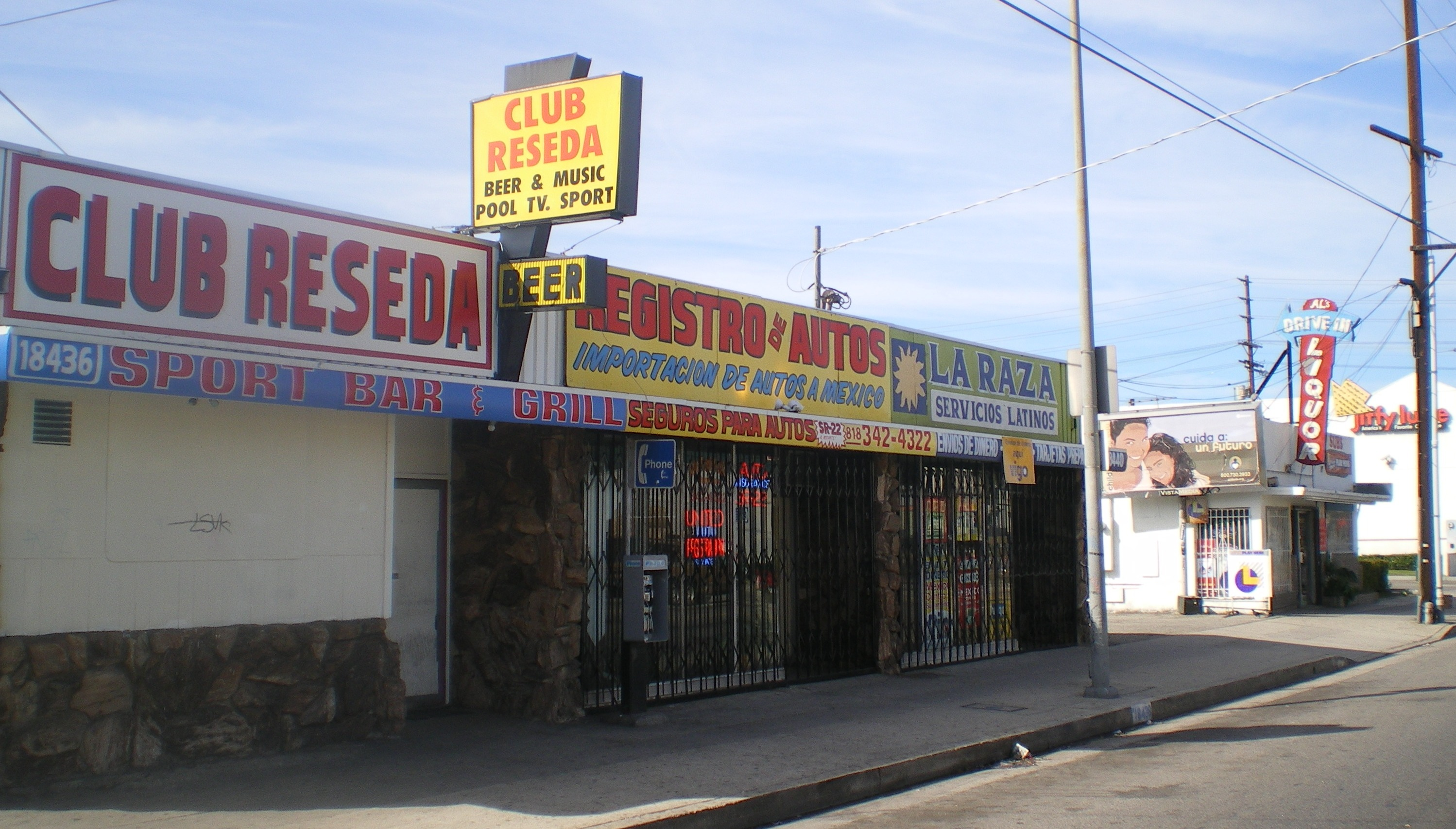 Shops at Saticoy & Reseda Blvd. in Reseda — in the western San Fernando Valley, Los Angeles, California.